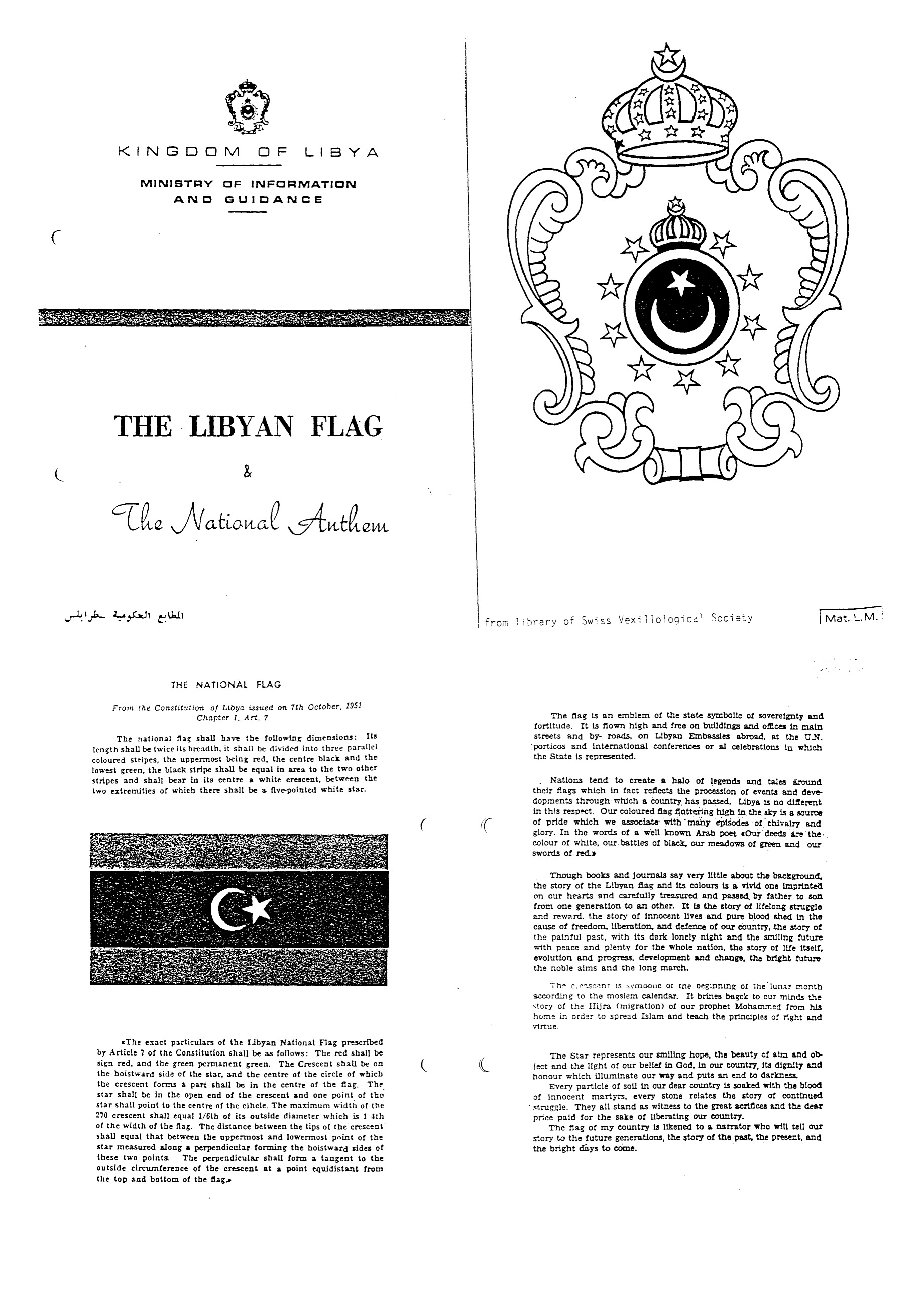 A booklet issued by the Ministry of Information and Guidance of the Kingdom of Libya, which shows the construction and precise colours of the flag of Libya in the form of an elucidation of the simple description in article seven of the constitution of 1951.